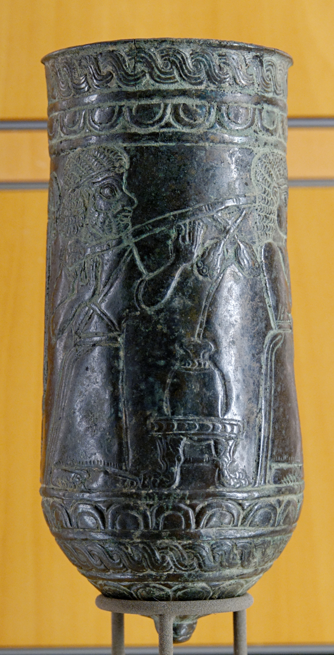 Situla with moulded decoration. Bronze, 9th–8th centuries BC. From Luristan.